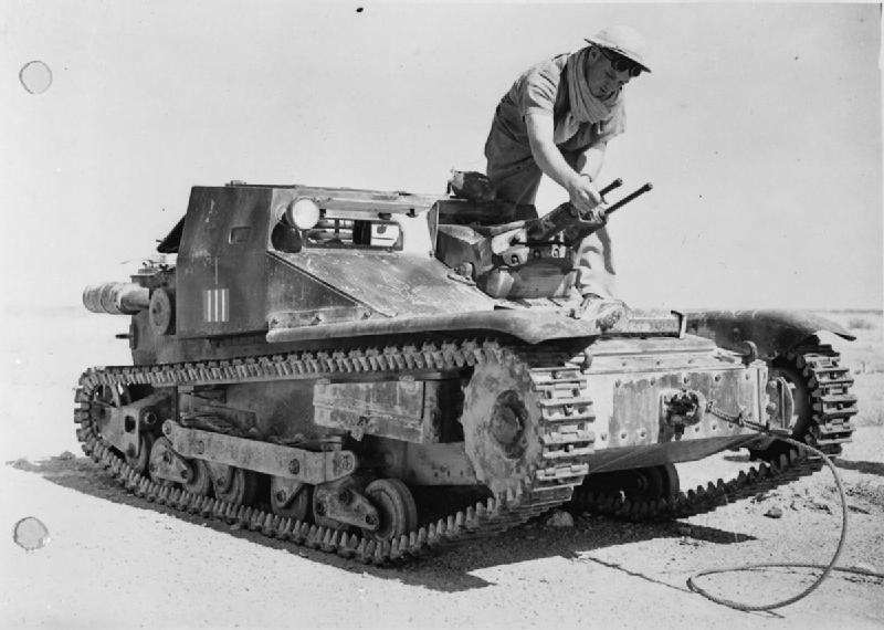 The British Army in North Africa 1940 An abandoned Italian Fiat Ansaldo CV33 light tank, left behind after a battle with British armoured cars on the Libyan frontier, 26 July 1940.